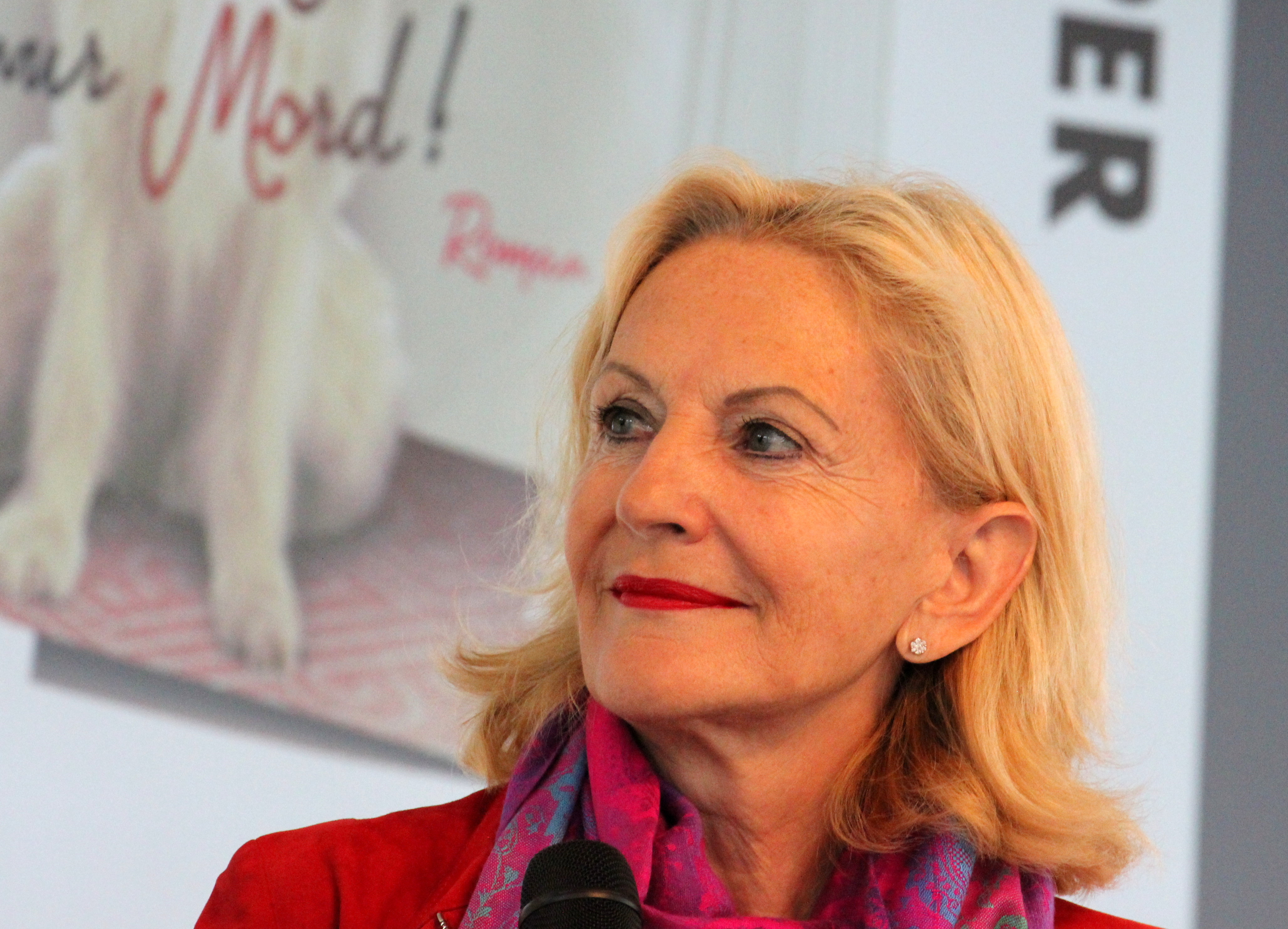 Gaby Hauptmann, Frankfurt Book Fair 2017